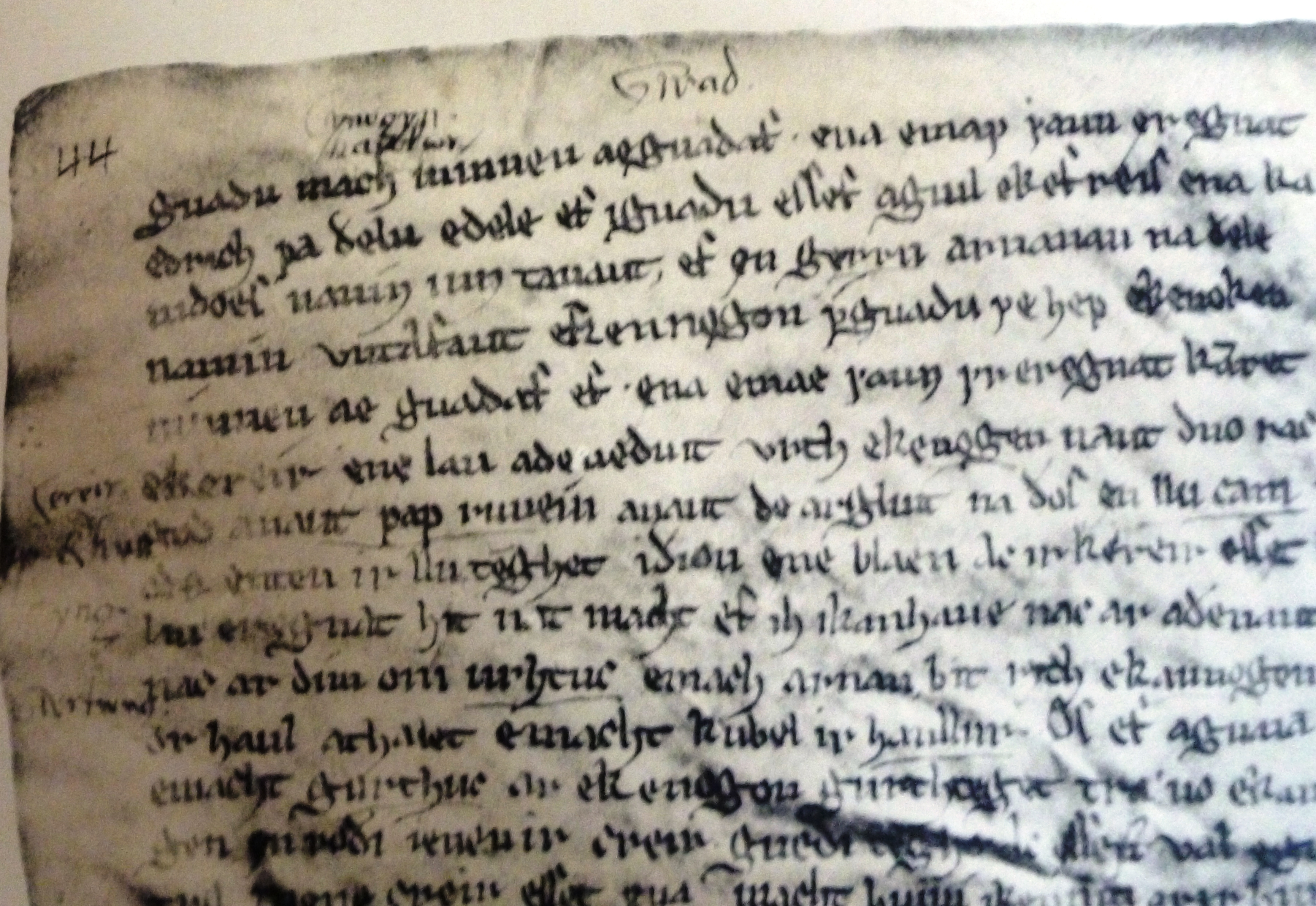 Close up photograph of page 44 of the book of Chirk (Llyfr y Waen)